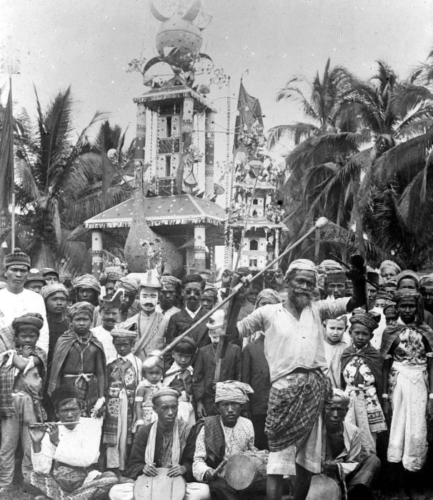 The Tabut festival